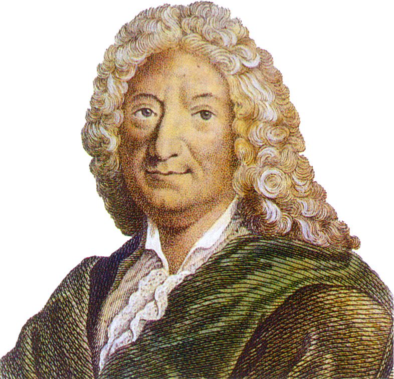 Alain-René Lesage Anonymous engraving, 18th century